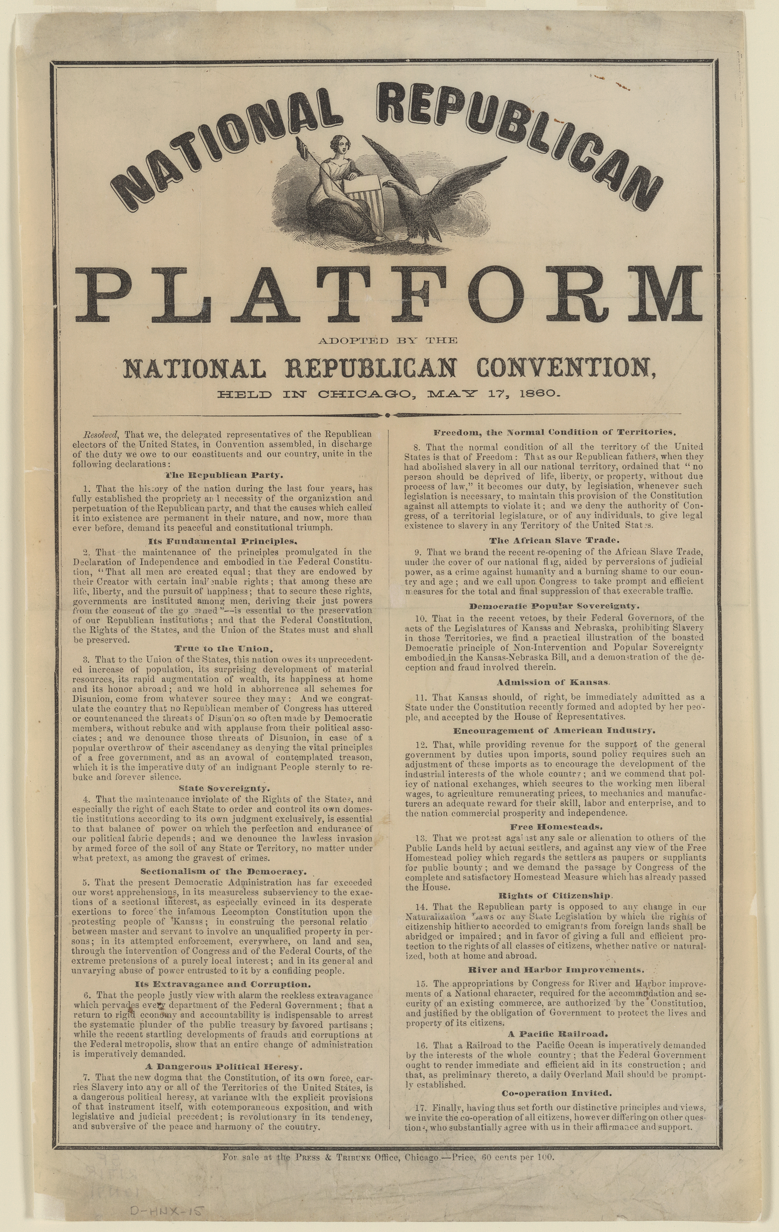 National republican platform. Adopted by the National Republican Convention, held in Chicago, May 17, 1860.